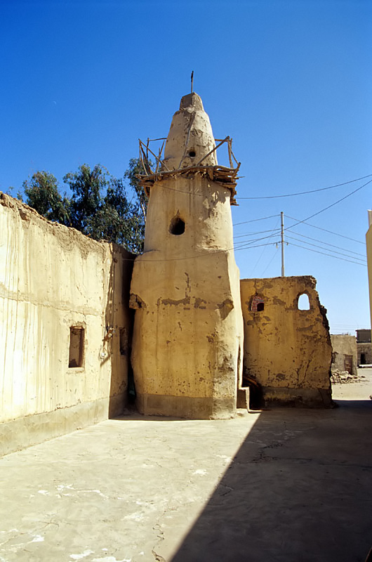 Minaret of the Zawiya mosque (Libyan mosque), el-Bawiti, Libyan desert, Egypt